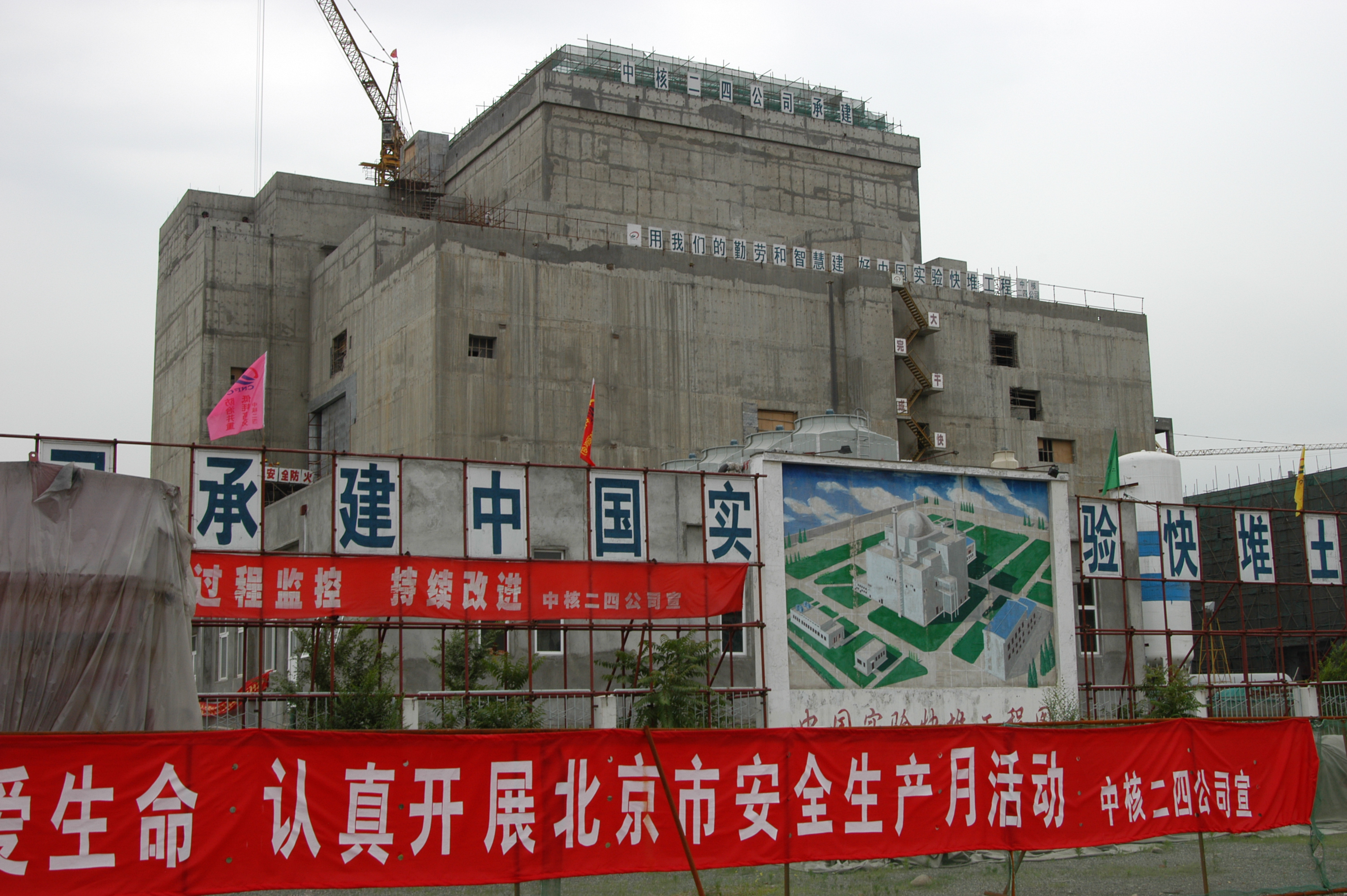 China's first experimental fast breeder reactor under contruction. The China Institute of Atomic Energy (CIAE) is responsible for this development. (Tuoli, China June 2004).